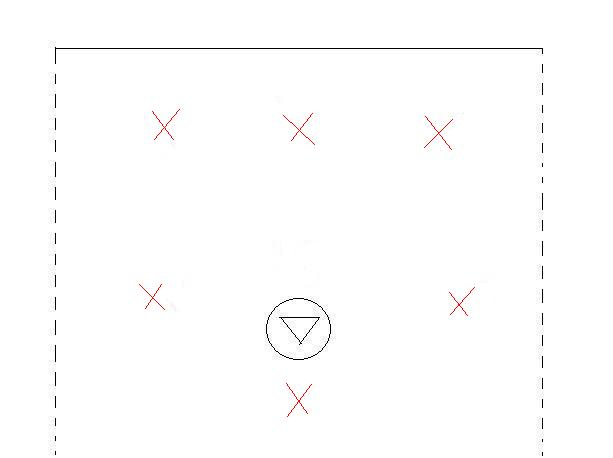 Lacrosse 3-2-1 offense